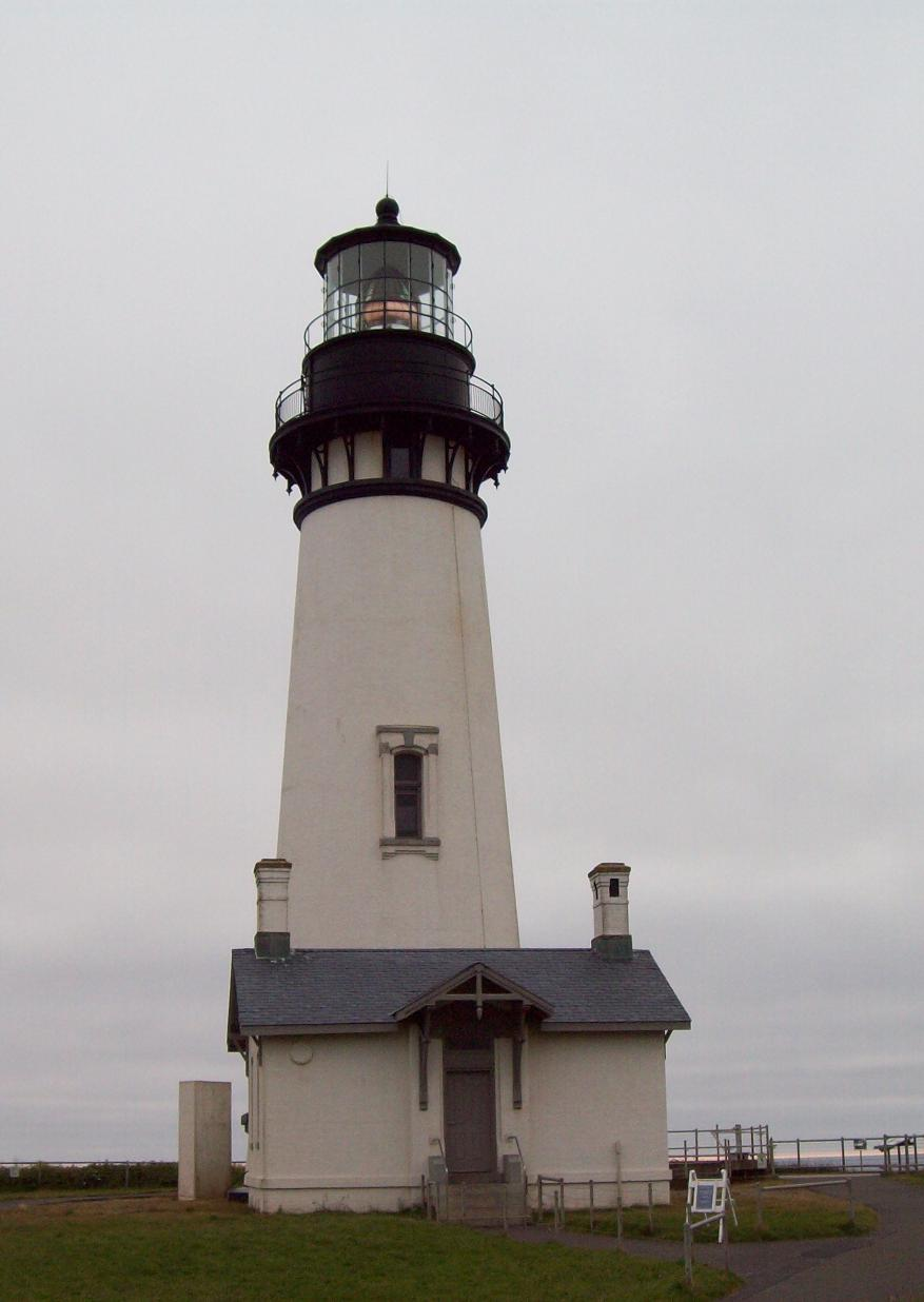 Yaquina Head Lighthouse on June 25, 2010. Note the chimneys, which are absent in most of the earlier photos.